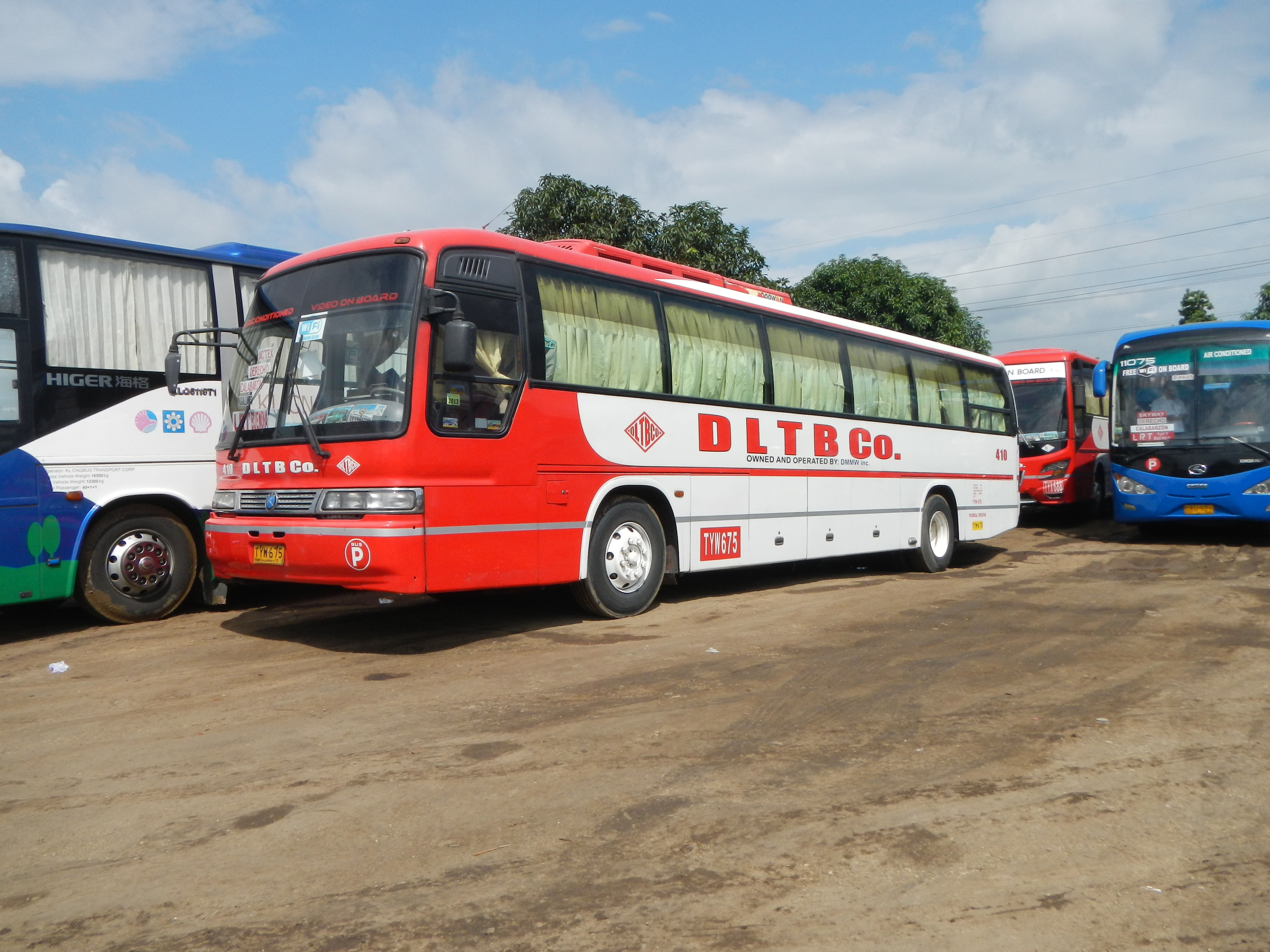 Upload Wizard photos of – Batangas Central Terminal [1] Coordinates: 13°45'13"N 121°2'46"E Batangas City[2] - Batangas City.